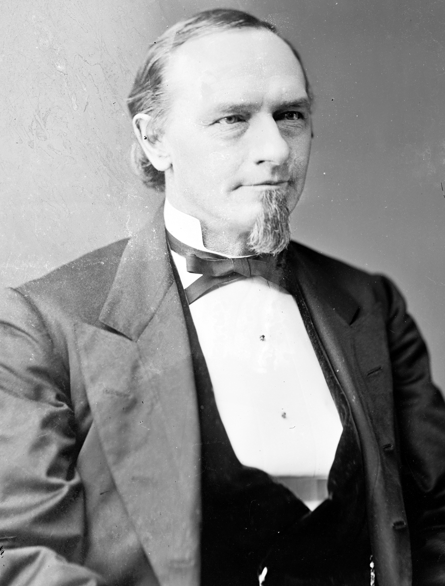 Henry S. Magoon, US Representative from Wisconsin